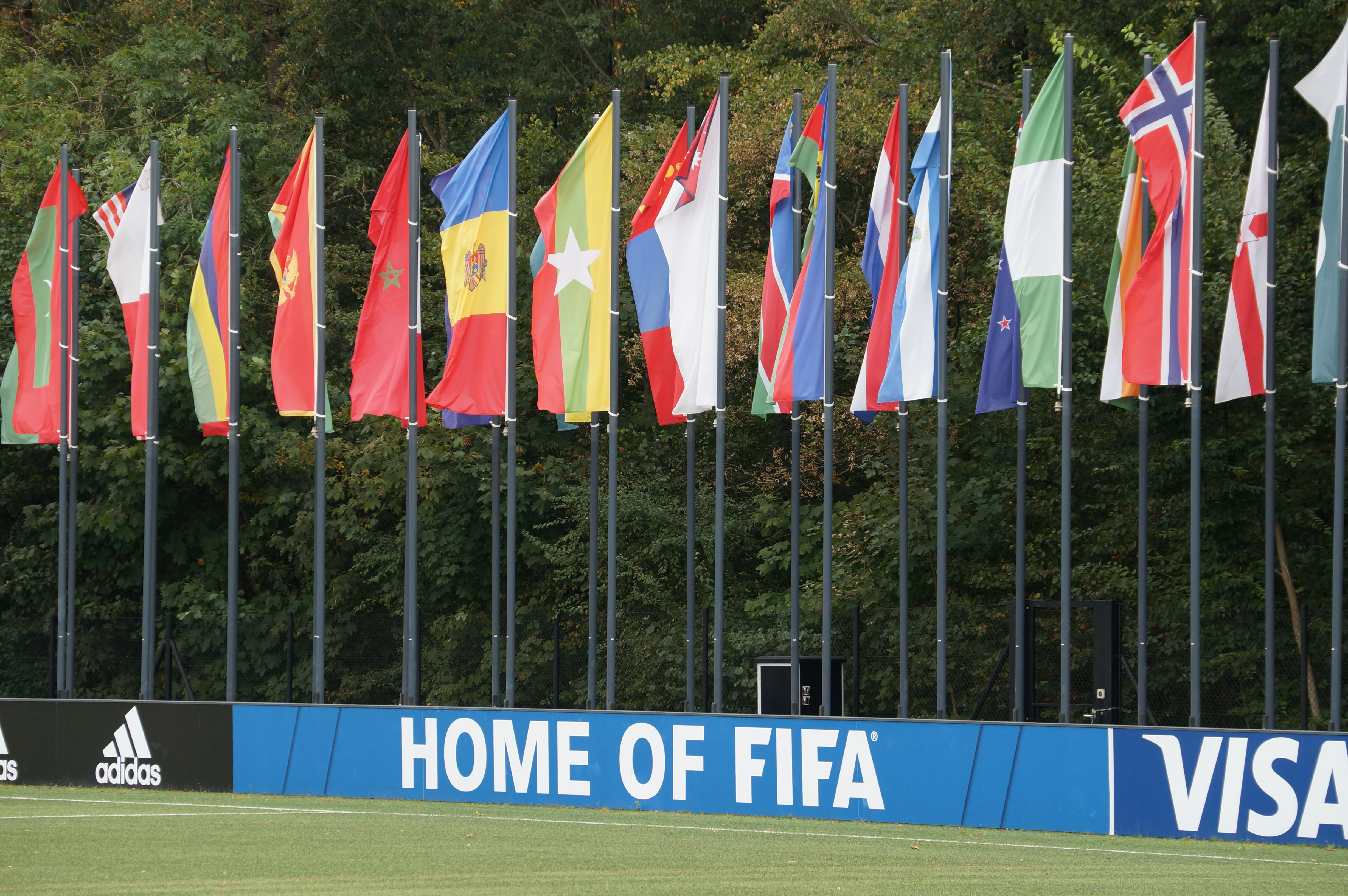 Home of FIFA in Zurich – FIFA headquarters